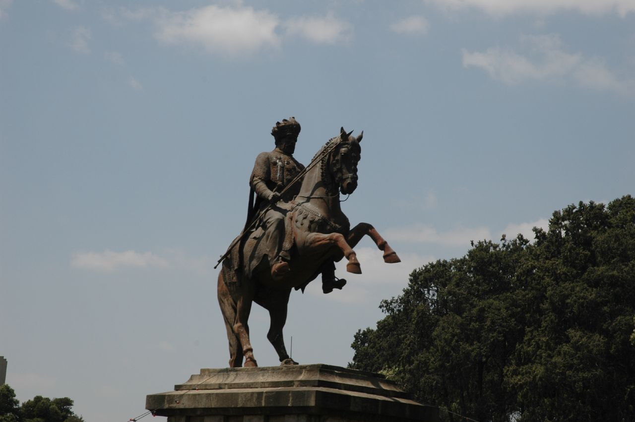 Menelik II statue, Addis Abeba, Ethiopia